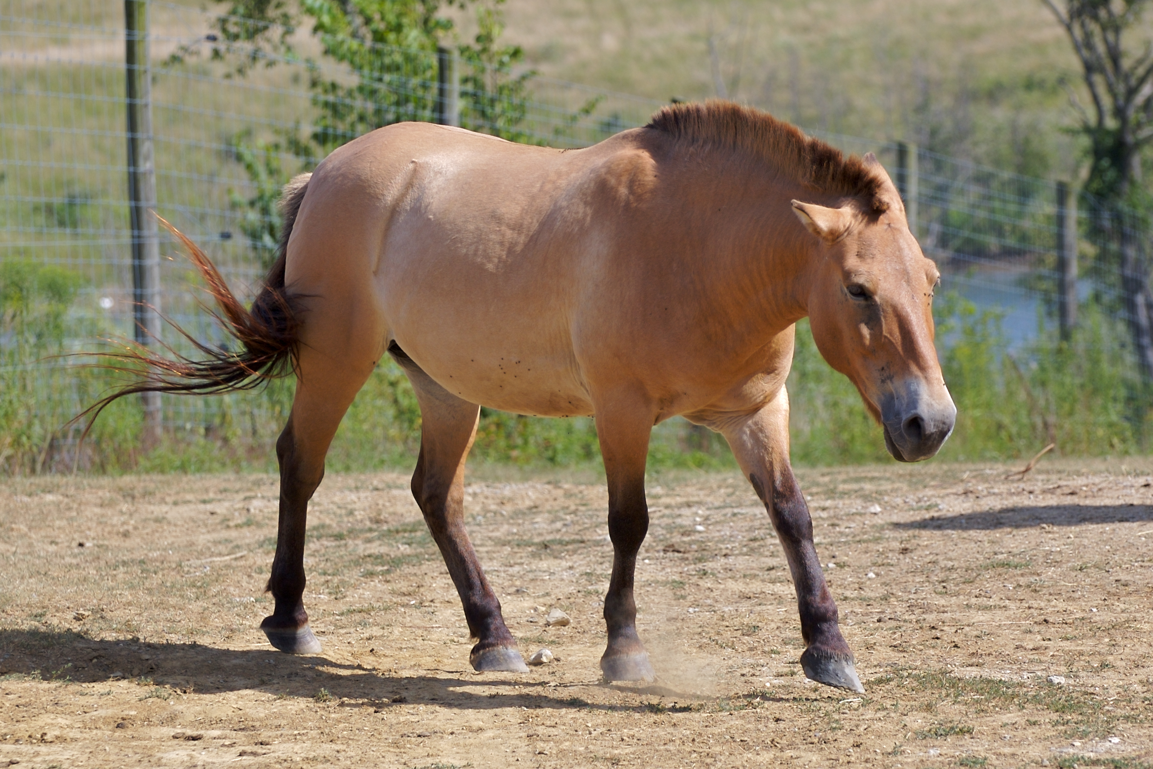 Przewalski horse at The Wilds in Ohio.